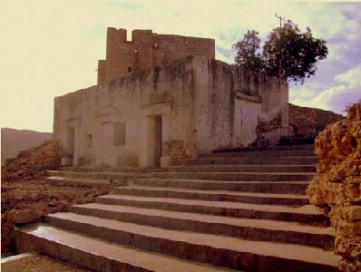 EYL CASTLE